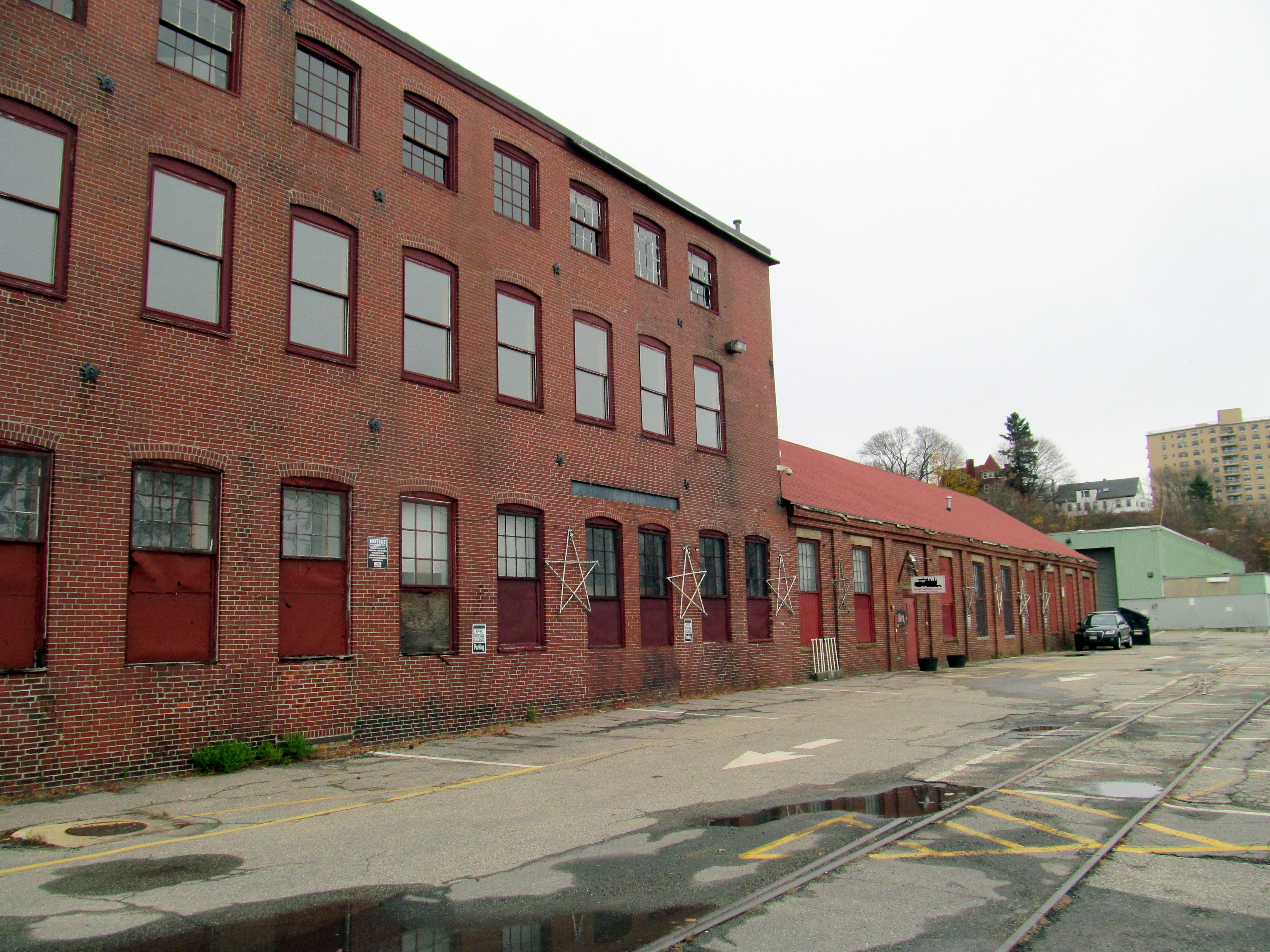 Portland Company building 6 in November 2016. Note the remaining standard-gauge tracks in the parking lot